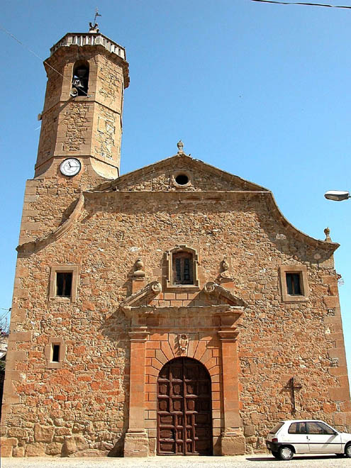 Butsènit d'Urgell, municipality of Montgai, la Noguera, Catalonia. Church of the Assumption.Baroque building from 1748.